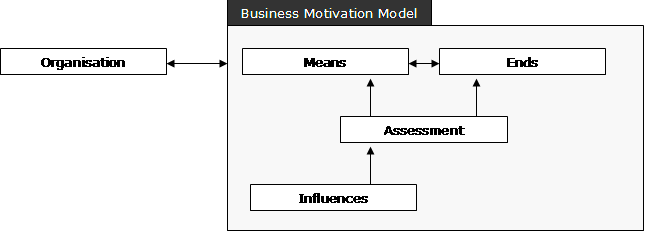 Top level view of the business motivation model